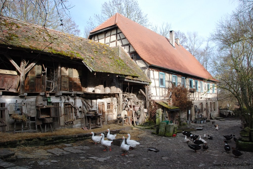 Raussmuehle nr. Eppingen: baroque mill (dated 1765)